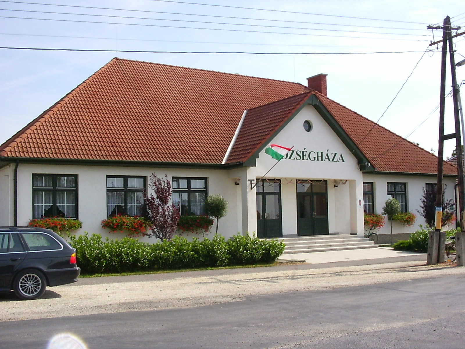 Village hall in Pinnye